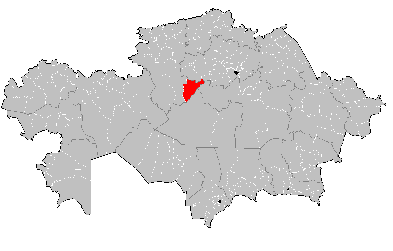 Arkalyk